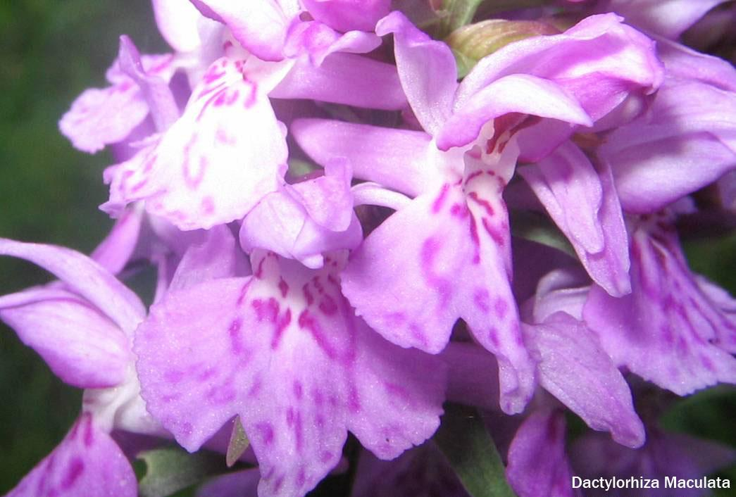 Picture taken by Lenard Andrei, in Romania(Brasov). Dactylorhiza maculata, one of the many native orchids of Romania. More pictures of Romania's native orchids can be viewed at